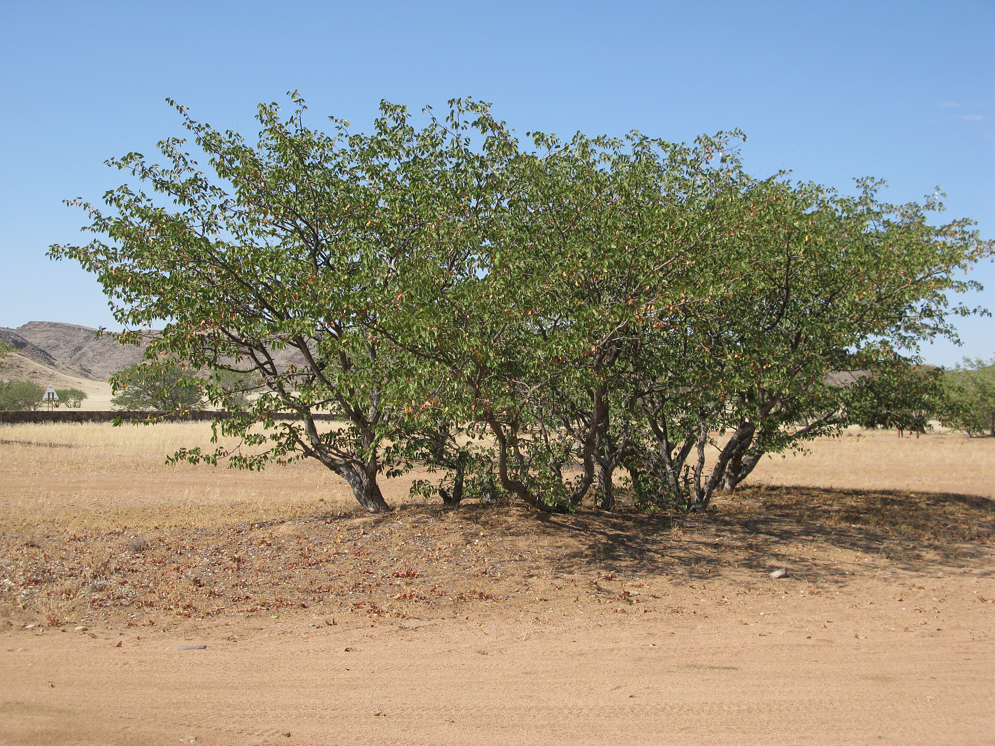 balsam tree